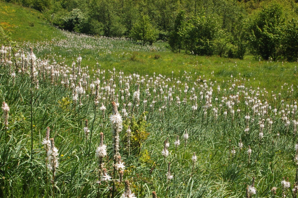 Asphodelus macrocarpus - Benedicta, Genova, Italy